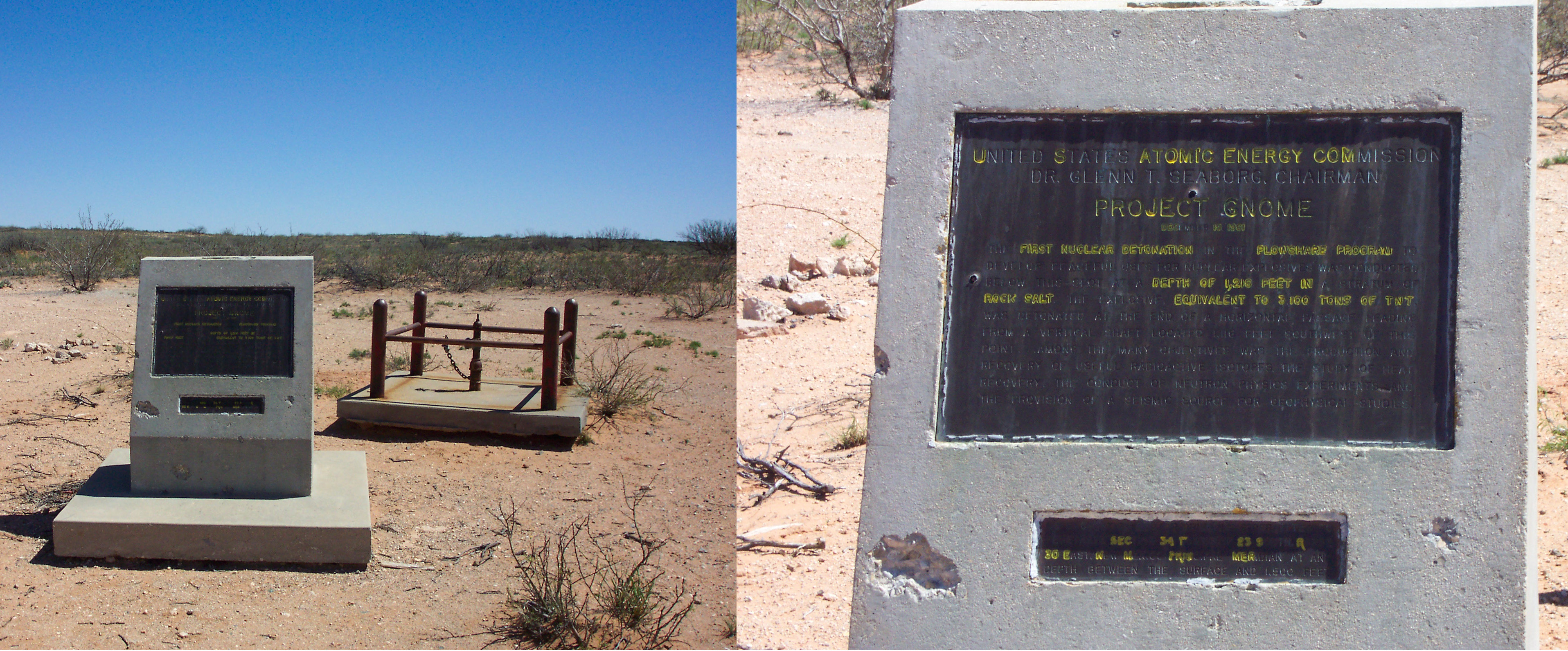 Marker for Nougat-Gnome nuclear test